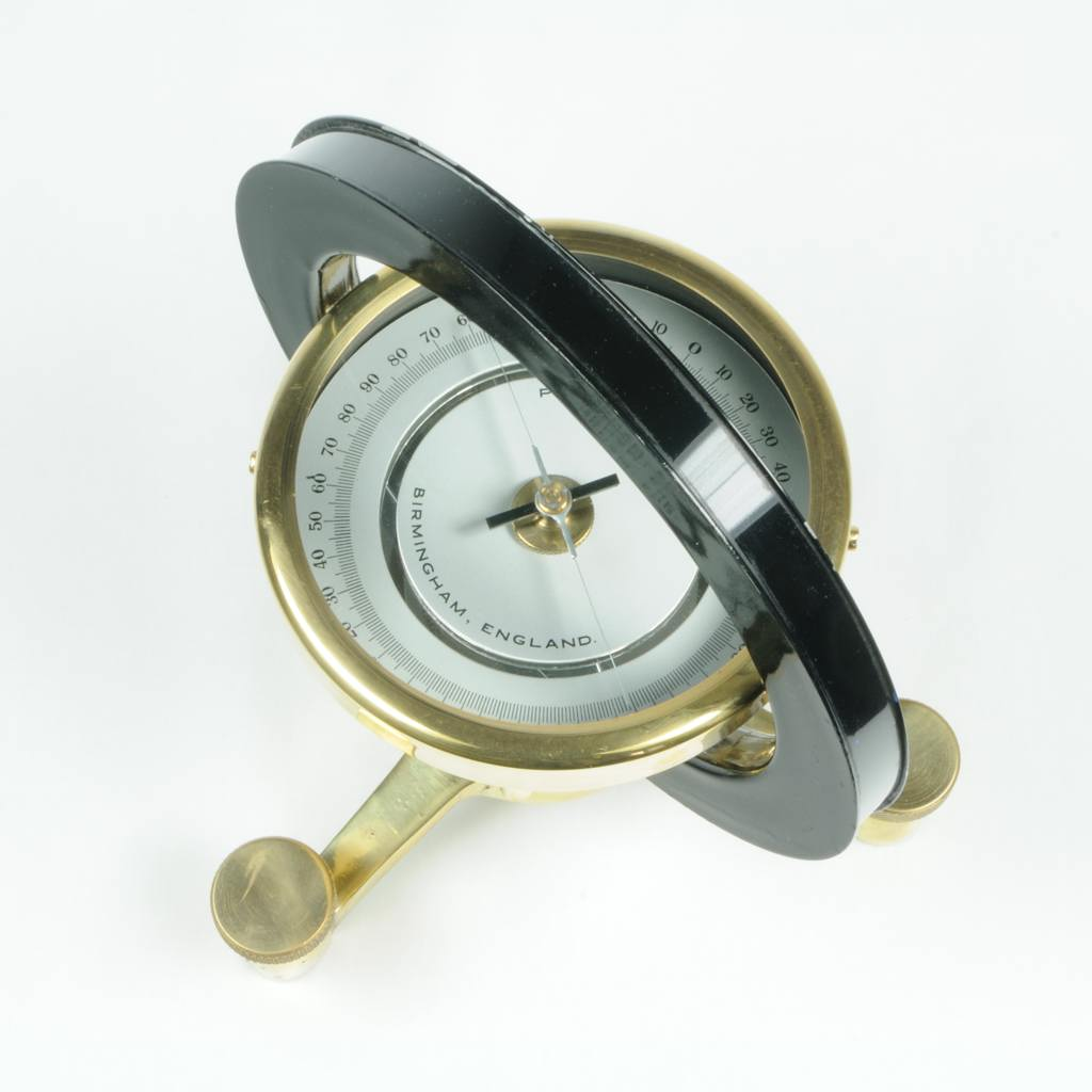 Tangent galvanometer made by Philip Harris Ltd., Birmingham, England, ca. 1950. From the Sammlung historischer Messtechnik (Collection of historical measurement apparatus), A. Kusdas. In the middle of the galvanometer is a compass that is aligned to be horizontal using the brass leveling screws. The black ring has a diameter of 17 cm; it houses a circular coil of wire. In use, the galvanometer is rotated on a table so that this ring is parallel to the direction of the earth's local magnetic field, and the compass needle will be parallel to the ring. As can be seen, the apparatus was not aligned when the photograph was taken. When a source of electrical current is hooked up to the coil, the resulting magnetic field causes the compass needle to rotate away from its initial alignment parallel to the coil. The angle of rotation is used to calculate the current through the coil.